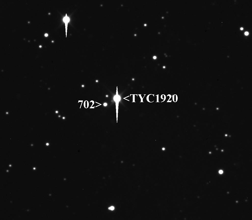 4 minute exposure of asteroid 702 Alauda with a 24" telescope. 702 Alauda is apparent magnitude 13.2 in this image taken at 2009-10-17 09:30 UT. 702 Alauda is the brightest of the three objects just to the lower left of the blooming (apmag 9.5) TYC 1920-00620-1. Alauda had just occulted TYC1920 an hour early at 08:18 UT as seen from Argentina.